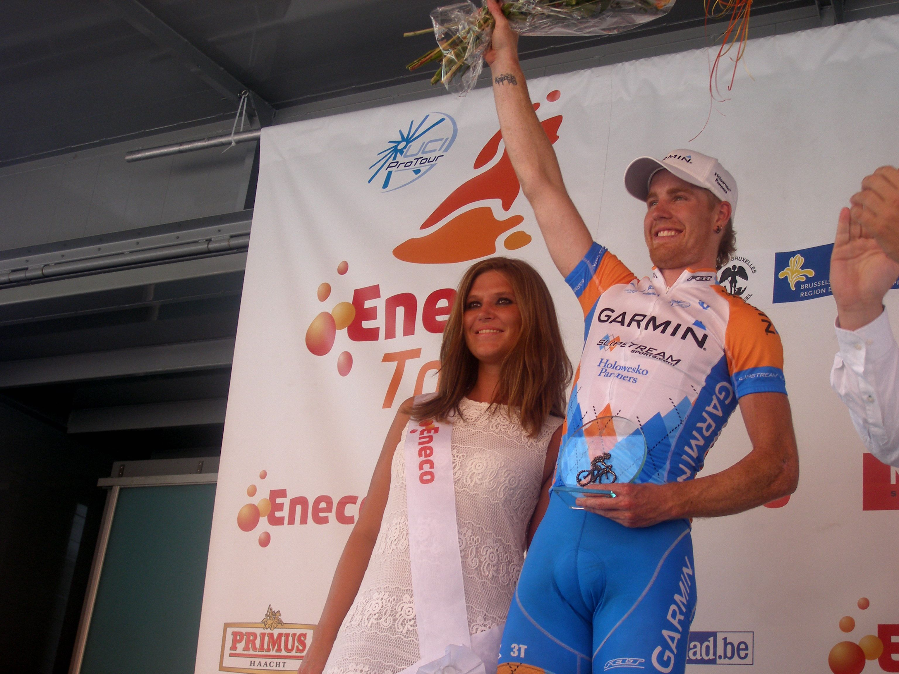 Miss Eneco 2008 & 2009, Elke Nijpjes honors the American young talented Tyler Farrar (aug 2009).